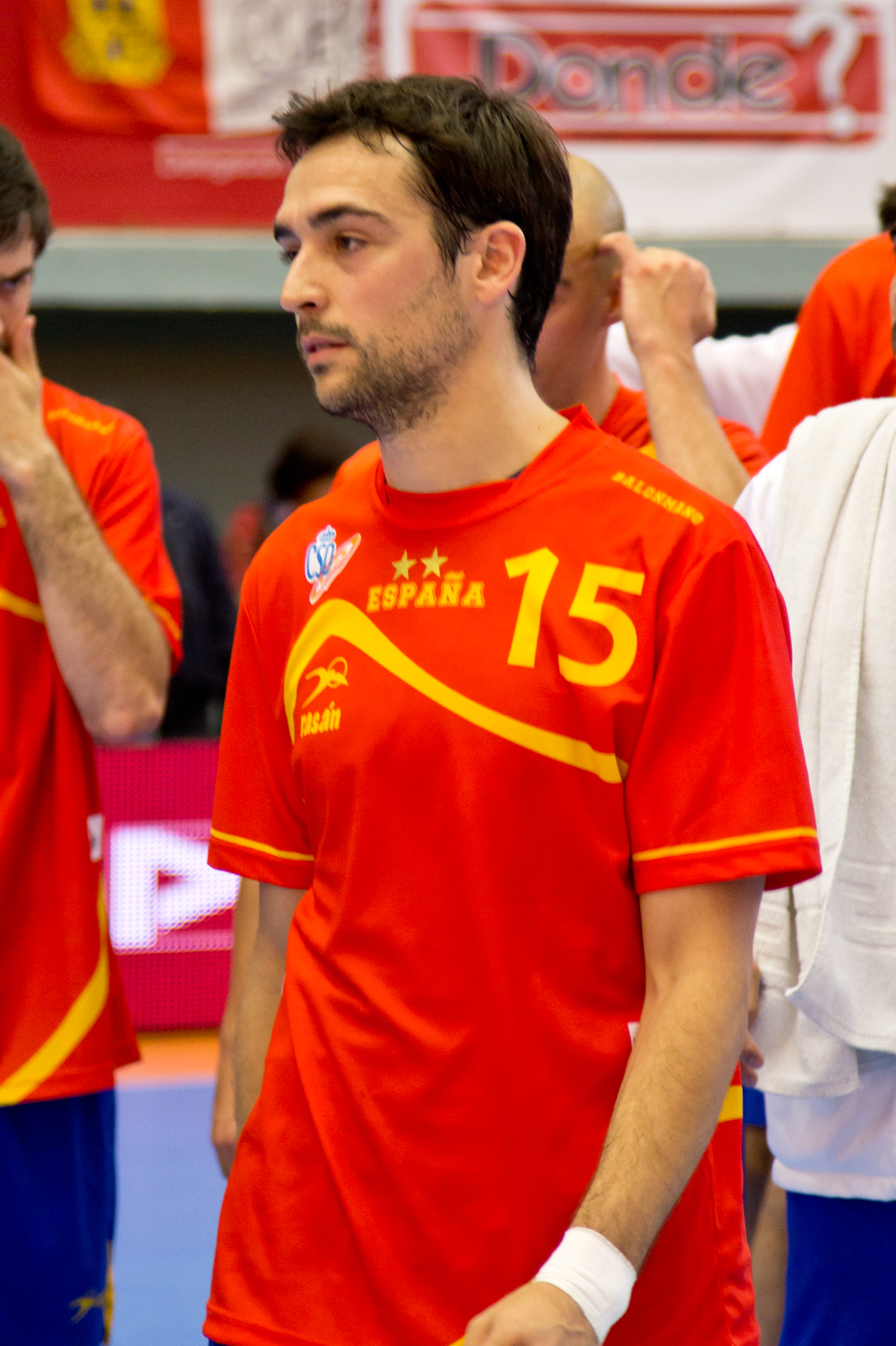 Spain Handball All Star Game 2013, held in San Sebastián de los Reyes, Madrid, Spain.